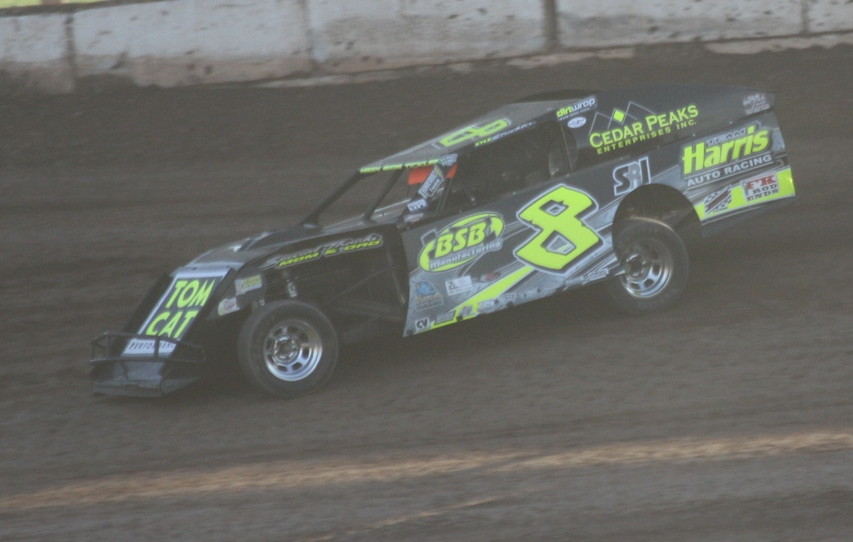 The IMCA Modified of Kyle Strickler of Mooresville, North Carolina racing at 141 Speedway in Wisconsin.